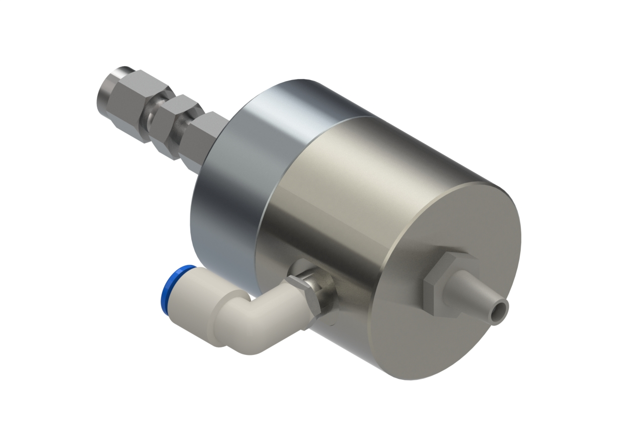 Microspray Focused Ultrasonic Nozzle